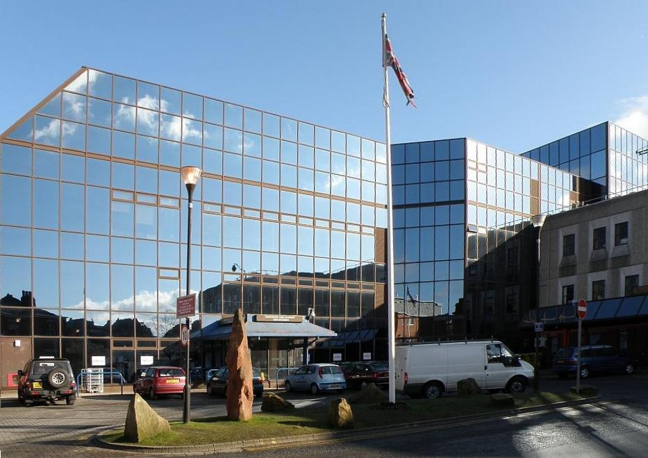 The main entrance to Manchester Royal Infirmary (Nelson Street, Manchester, Lancashire, England).